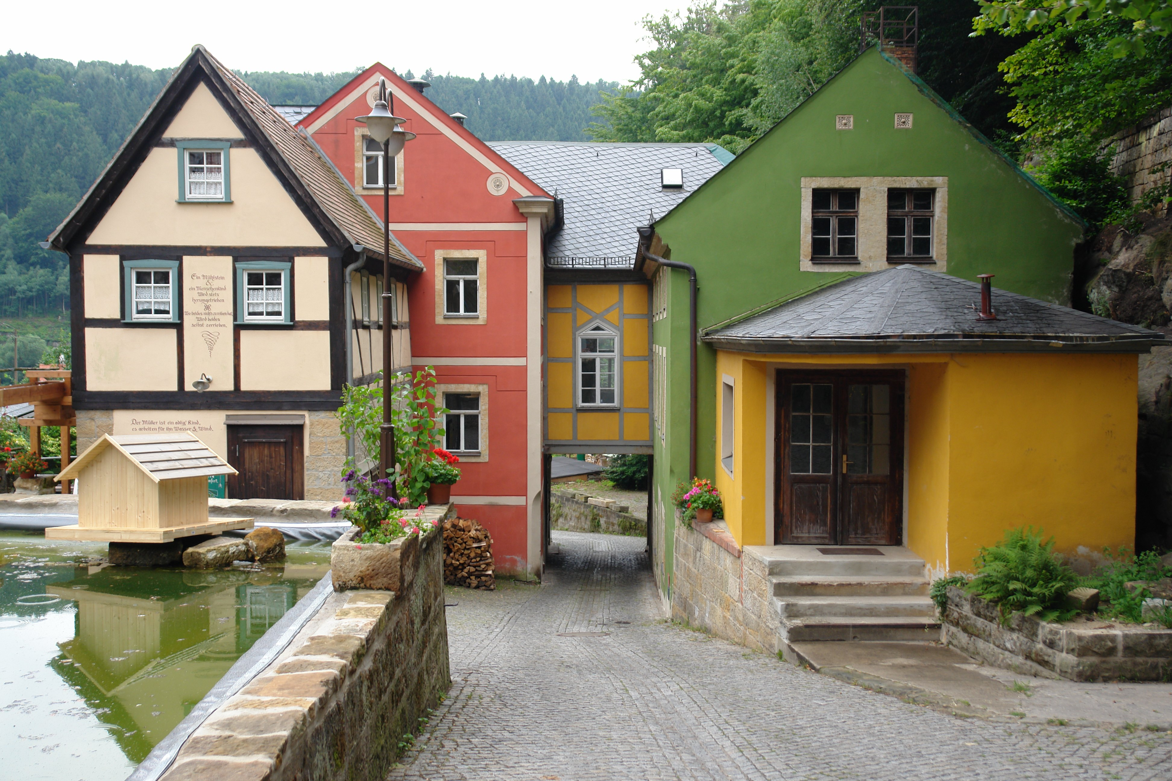 Bad Schandau, Saxony; Germany